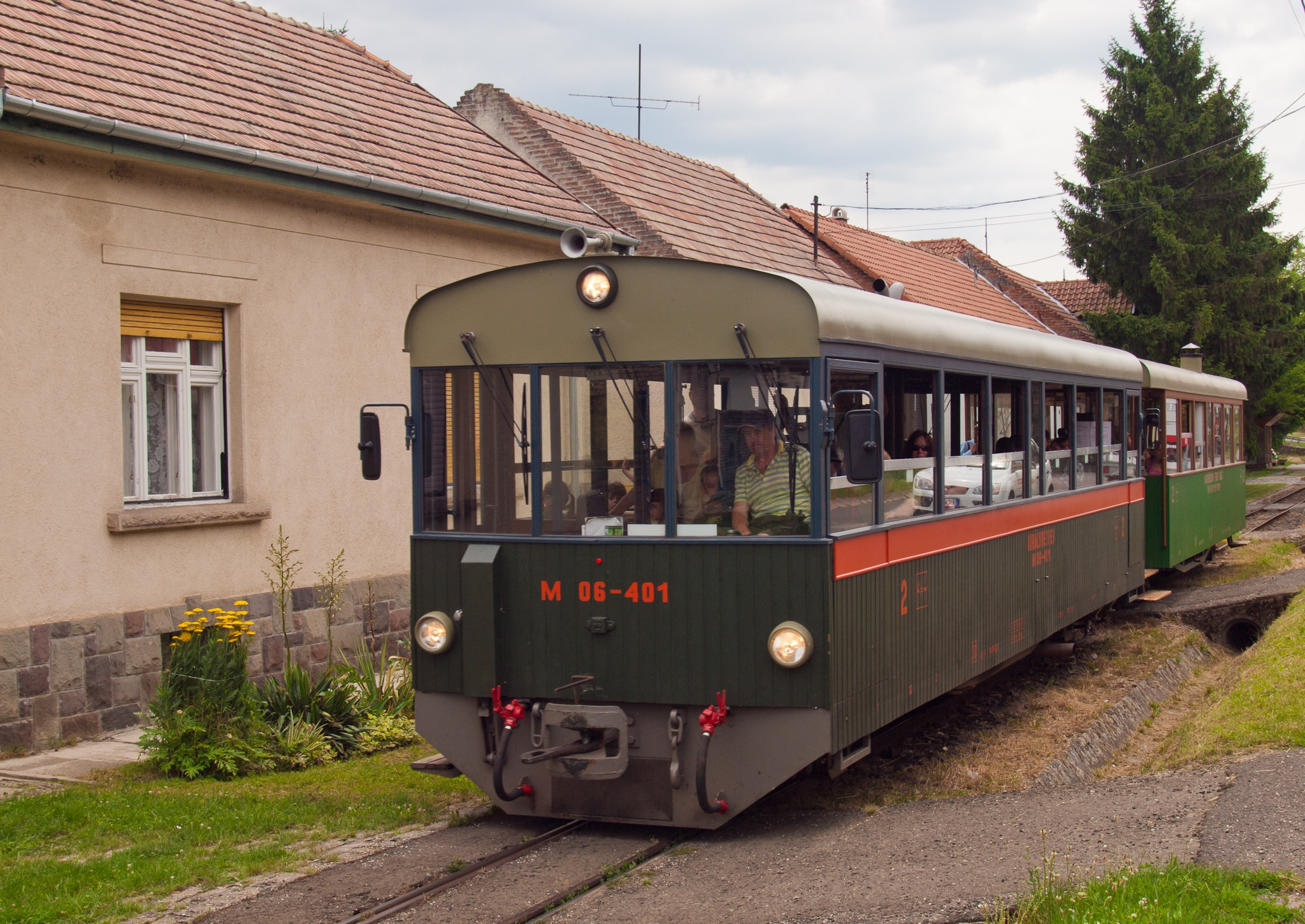 M 06-401 is a new railcar built by the Királyrét Forestry Railway for short passenger trains. It features a hydrostatic drive and a modern Iveco diesel engine. Because of its rectangular shape it is nicknamed Toby, after Toby the Tram Engine, a character in Thomas the Tank Engine & Friends.